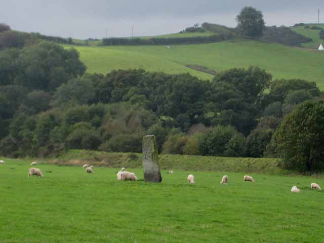 Dalarran Holm standing stone Standing by the Water of Ken just above New Galloway. suggests that it has some astronomical significance.